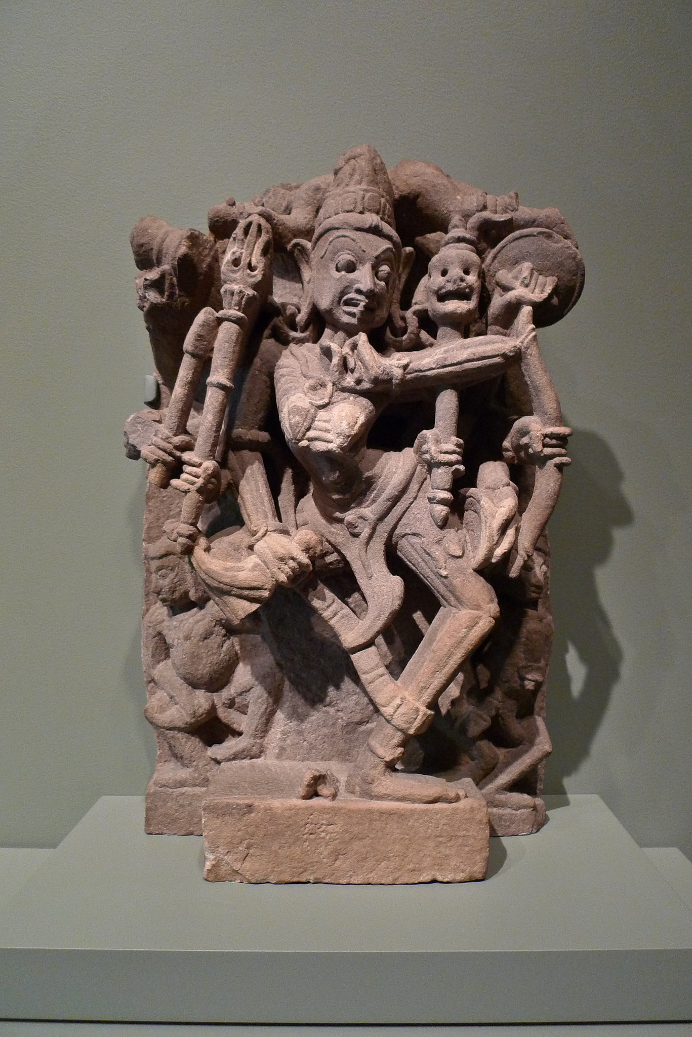 From the permanent collection of the Asian Art Museum of San Francisco.